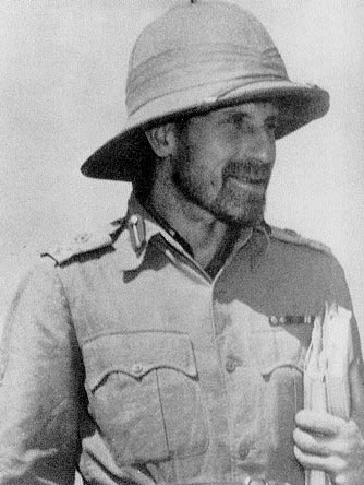 British Army General Orde Charles Wingate